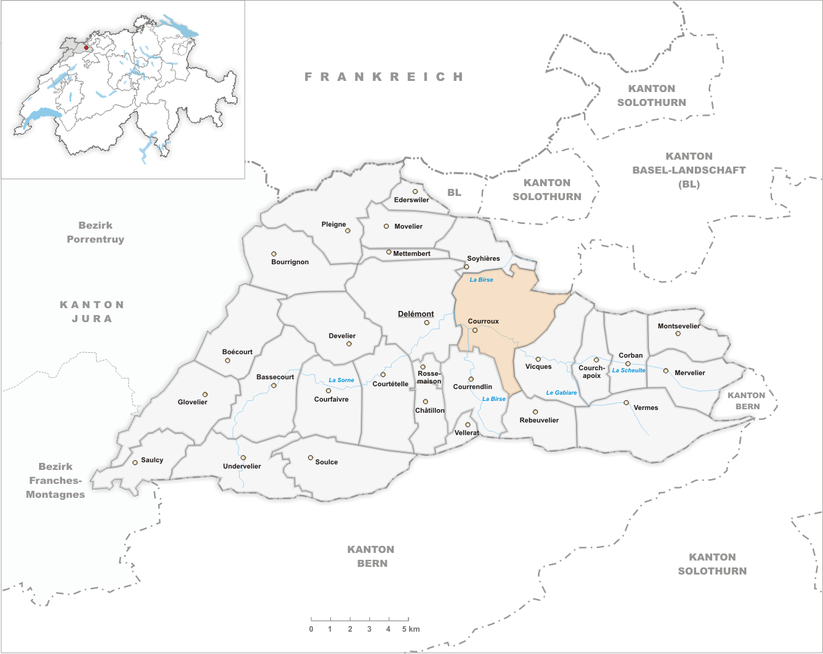 Municipality Courroux